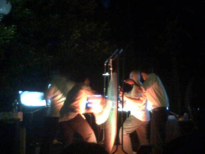 Mikrophonie I